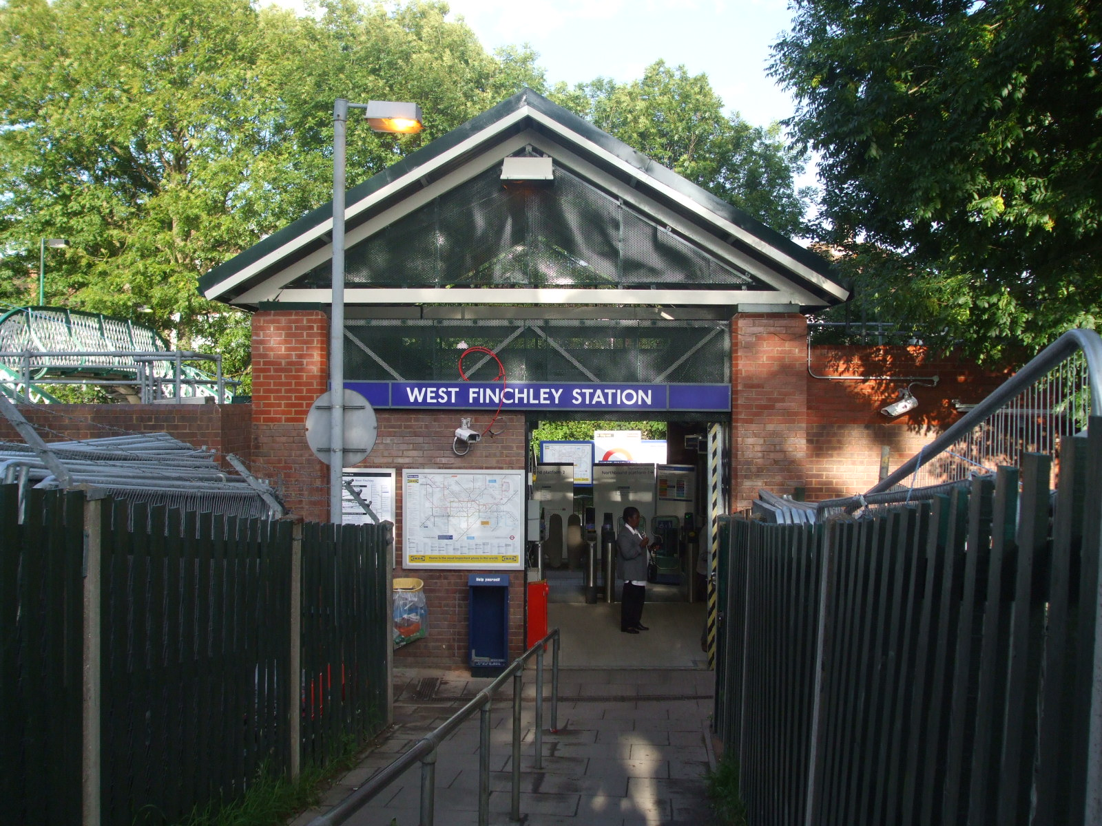 West Finchley tube station entrance